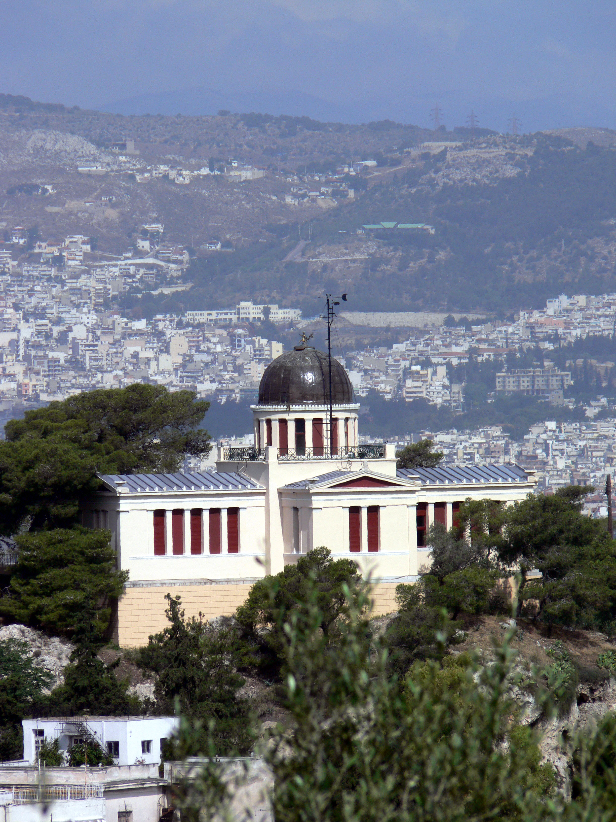 Observatorium in Athen